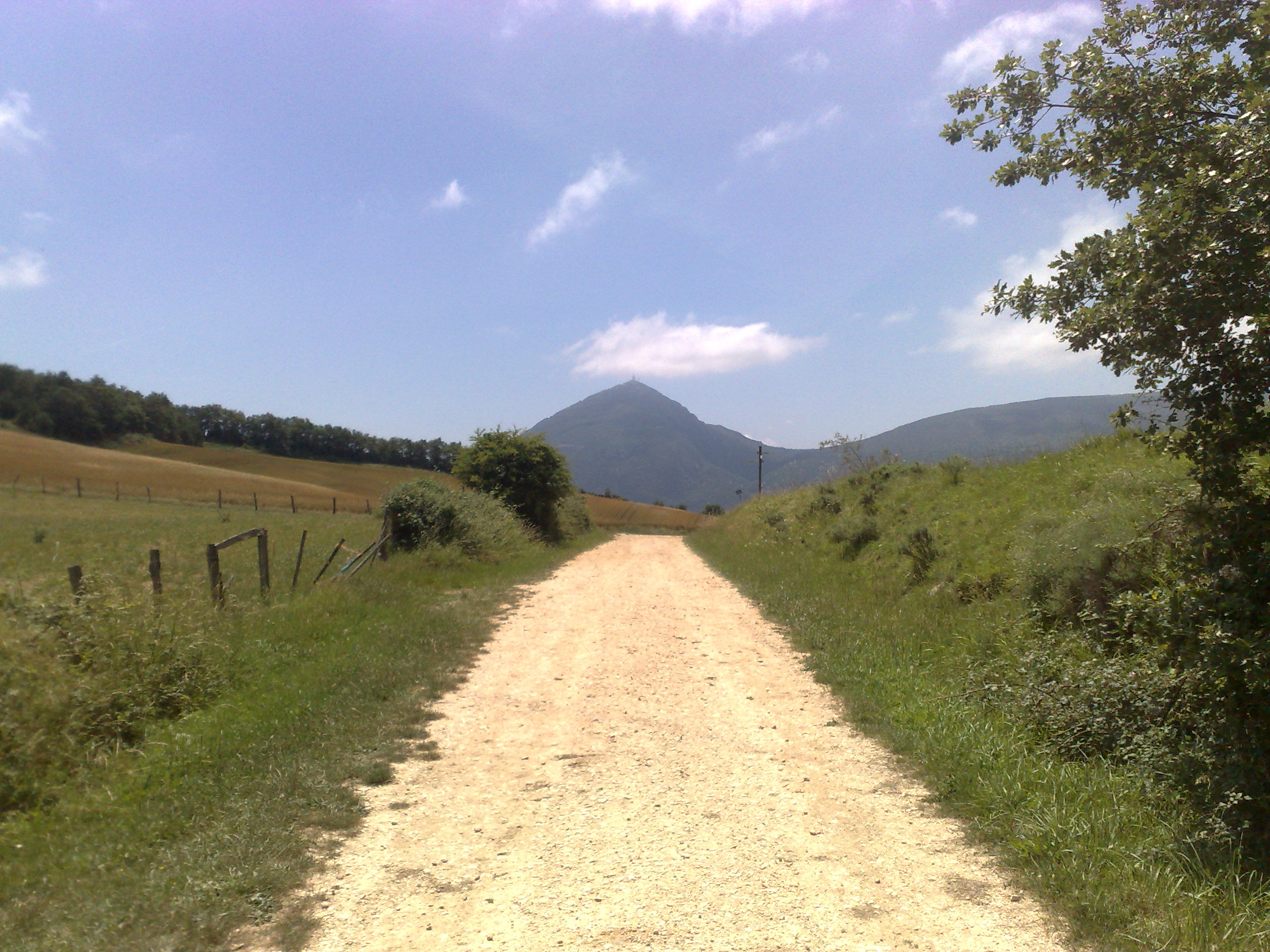 Mount Higa (sometimes called Elomendi) from Andrikain pass, Aranguren and Elortzibar, Navarre, Basque Country.